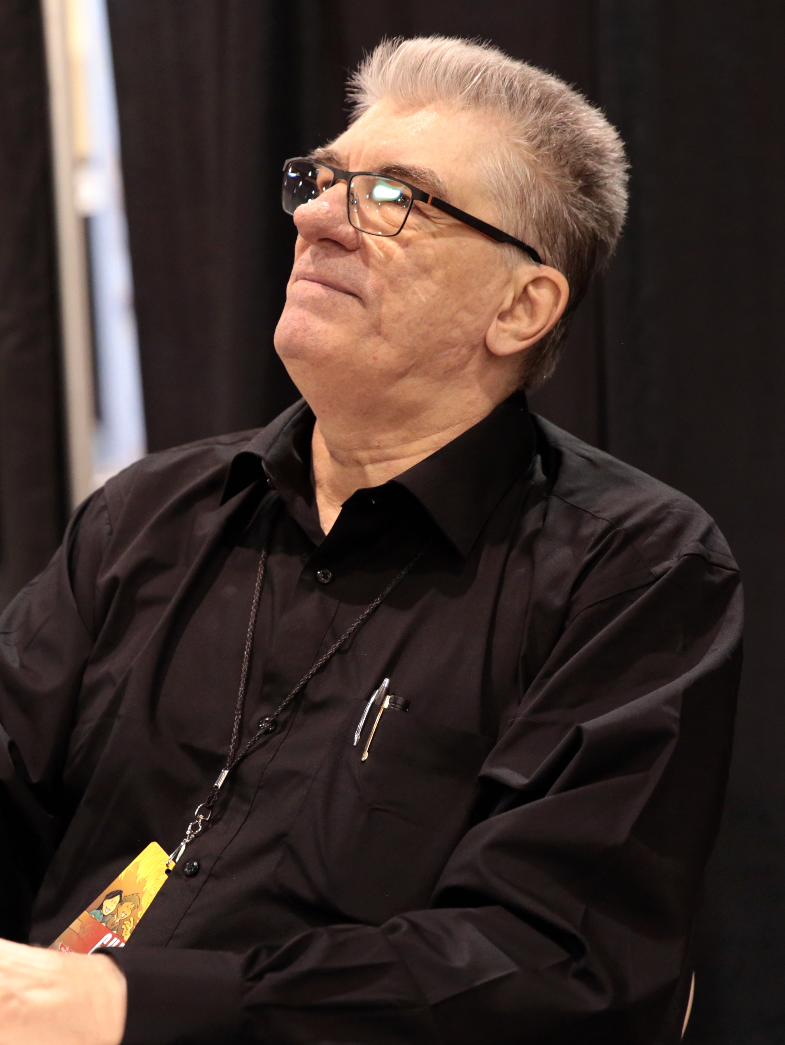 Jim Shooter speaking at the 2017 Phoenix Comicon in Phoenix, Arizona.